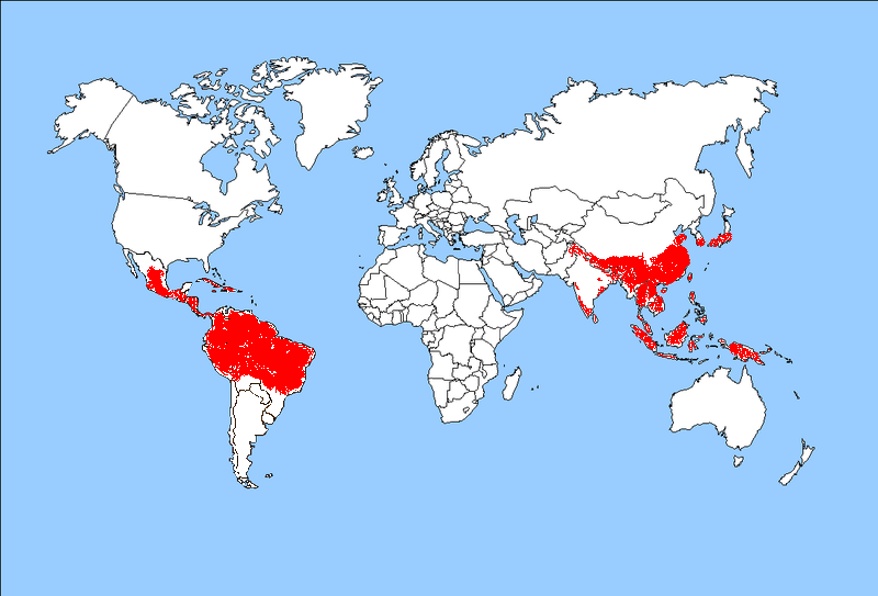 Distribution map of species in the eudicot plant order "Sabiales"